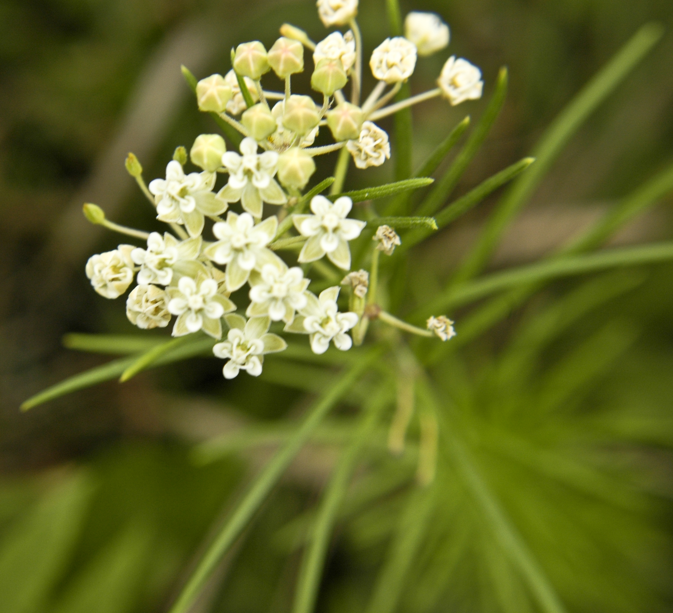 Asclepias verticillata at the James Woodworth Prairie Preserve